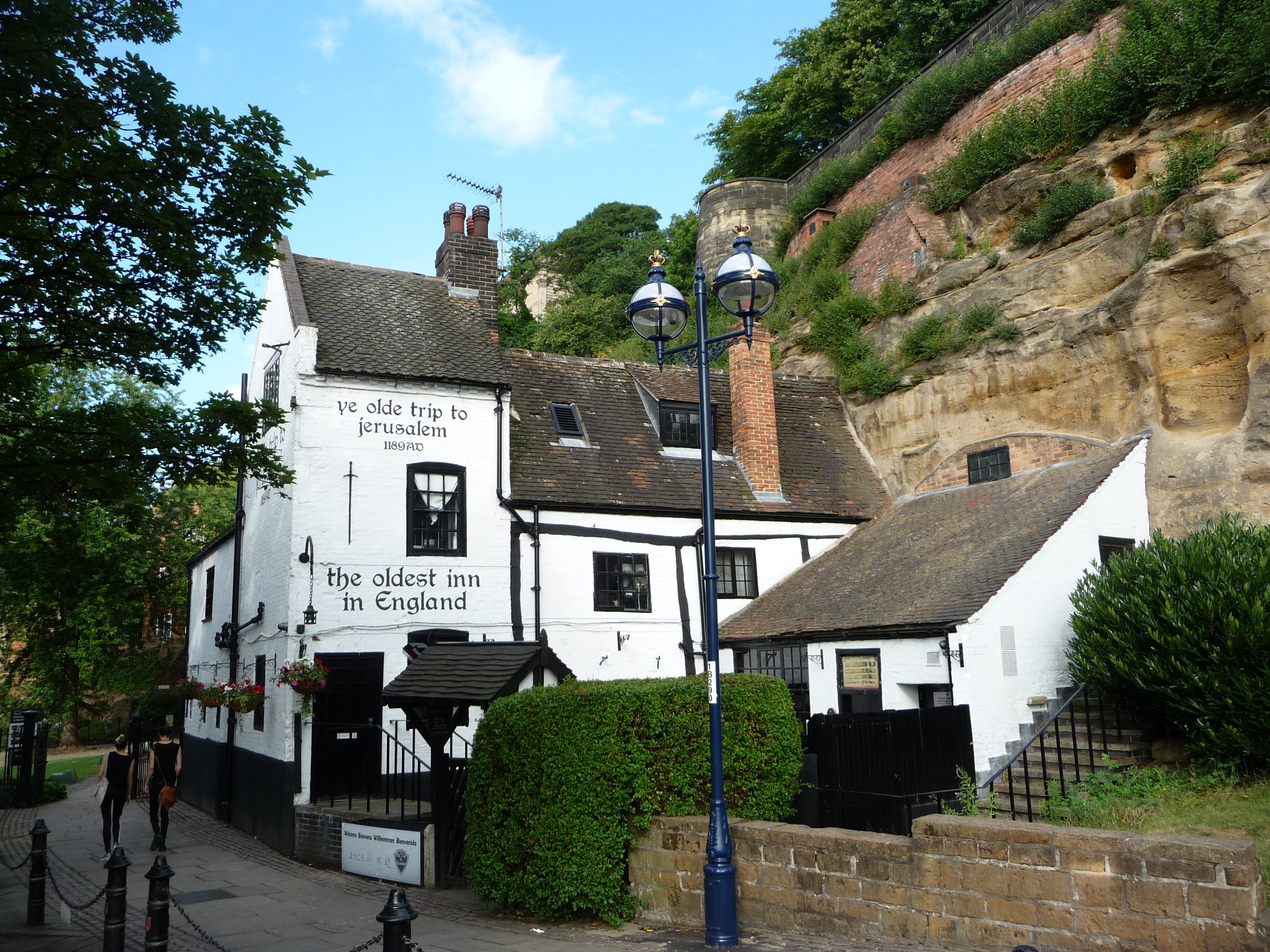 Ye Olde Trip to Jerusalem is a public house in Nottingham which claims to have been established in 1189; however, there is no documentation to verify this date. The building rests against Castle Rock, upon which Nottingham Castle is built, and is attached to several caves, carved out of the soft sandstone.